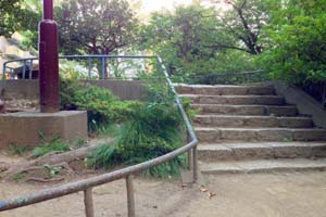 Artificial Mound Watching Bench for Shogunate Sport Hunting in Edo period